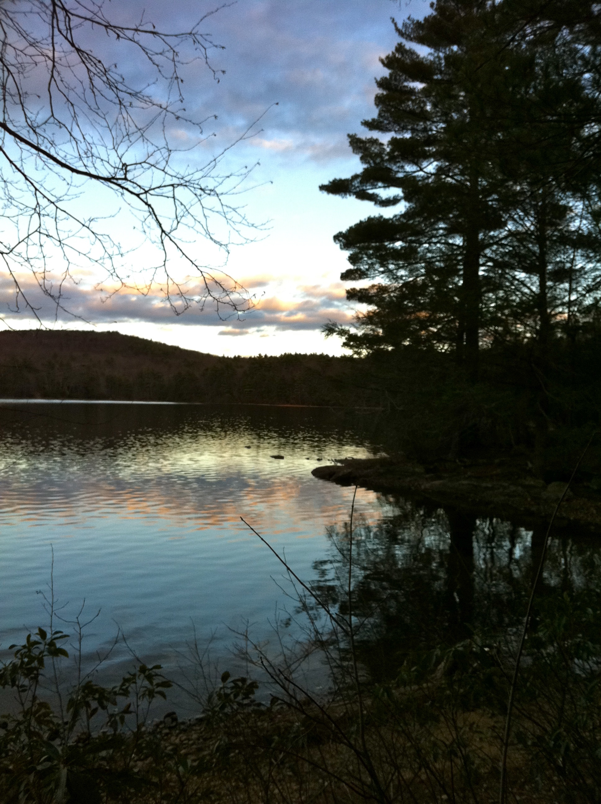 Bigelow Hollow State Park Bigelow Hollow State Park on Mashapaug Pond View Trail (Blue/White) on southern shore of Mashapaug Pond.